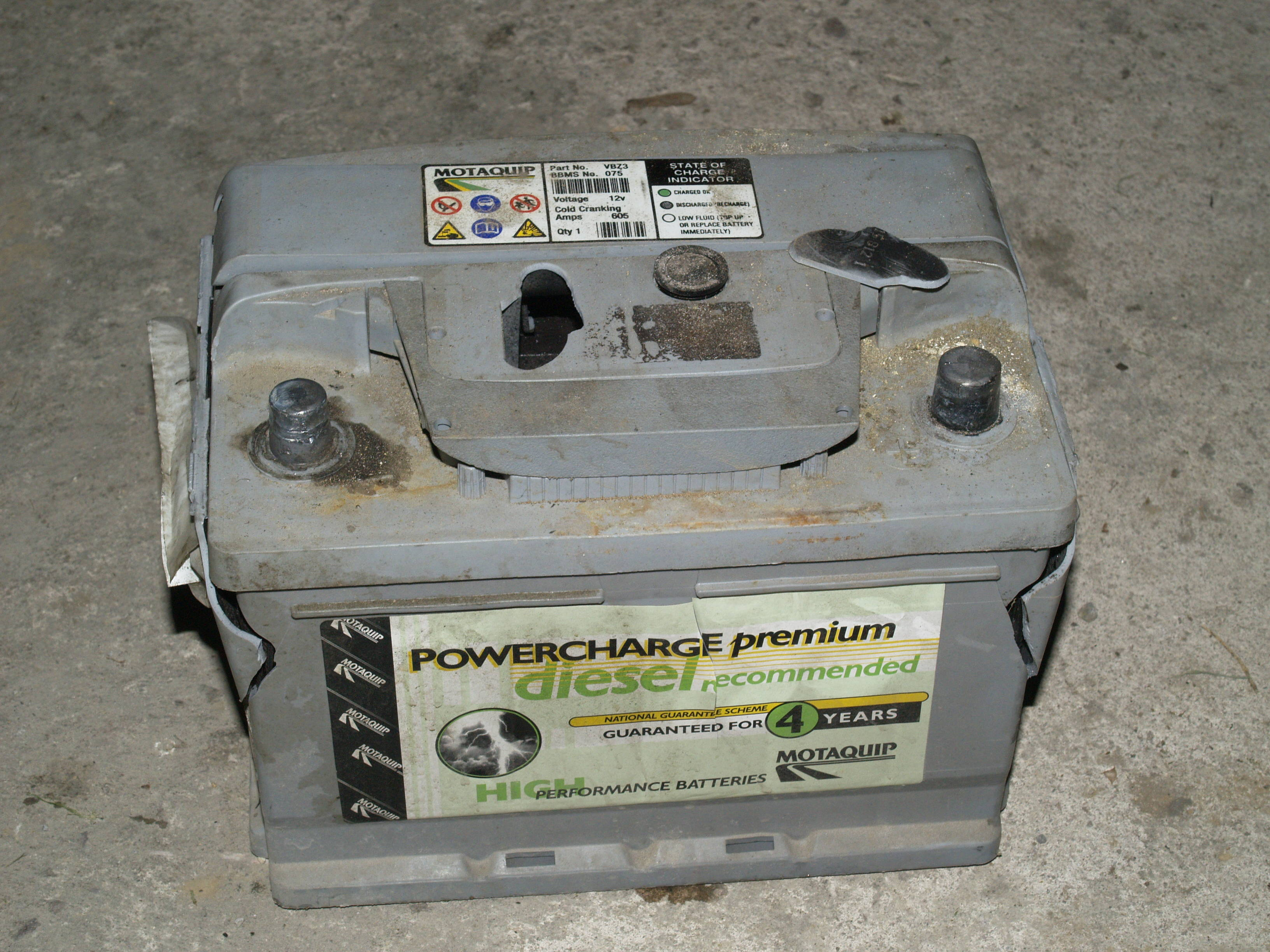 Car battery from Peugeot 405 after exploding. I tried to start the engine and heard a loud bang.